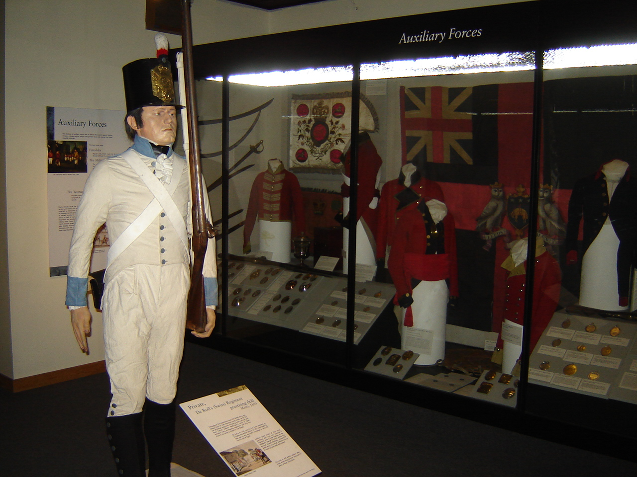 internal photographs of the national army museum